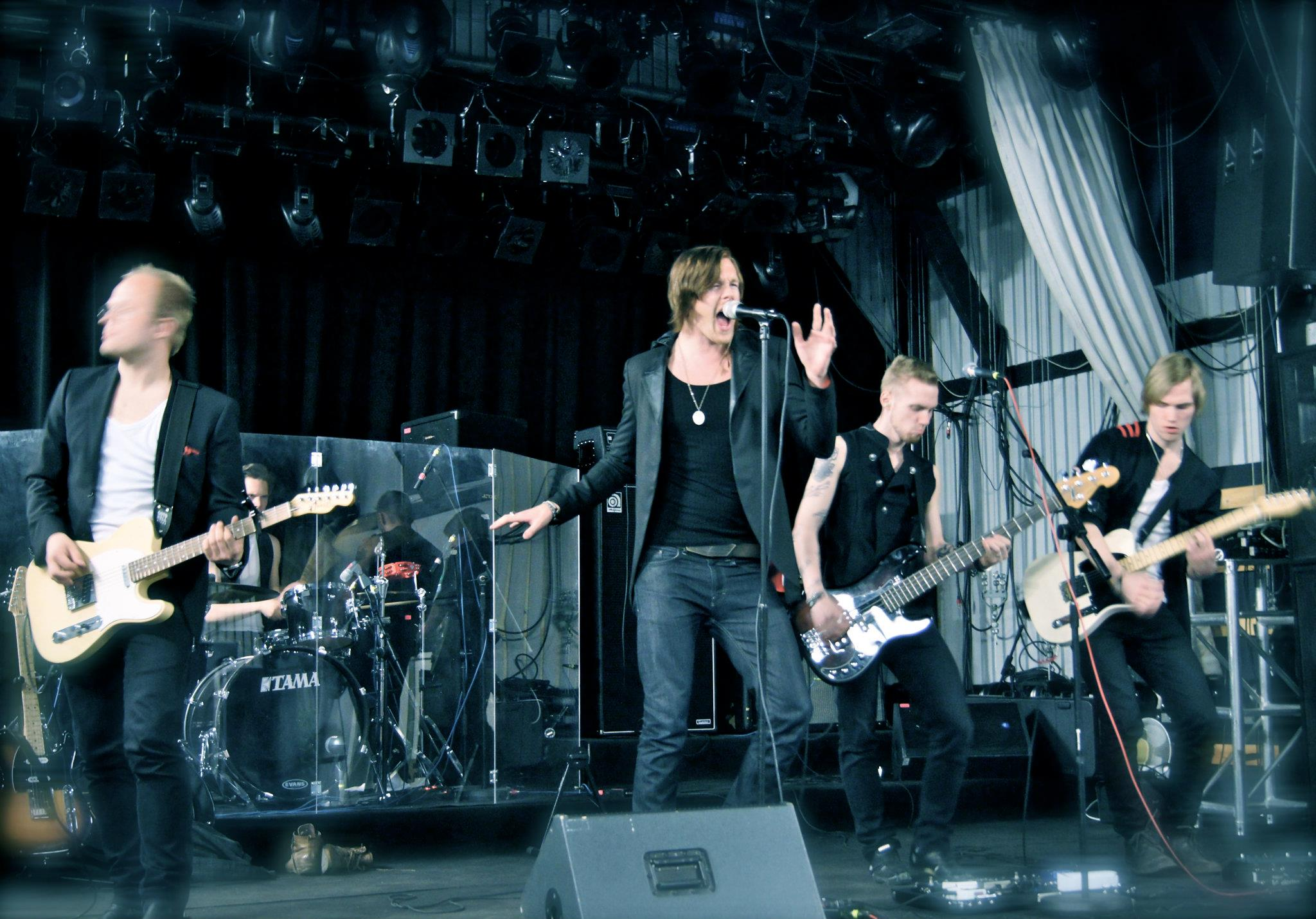 The Coloured Office Paper, Ailucrash, BLK Tape